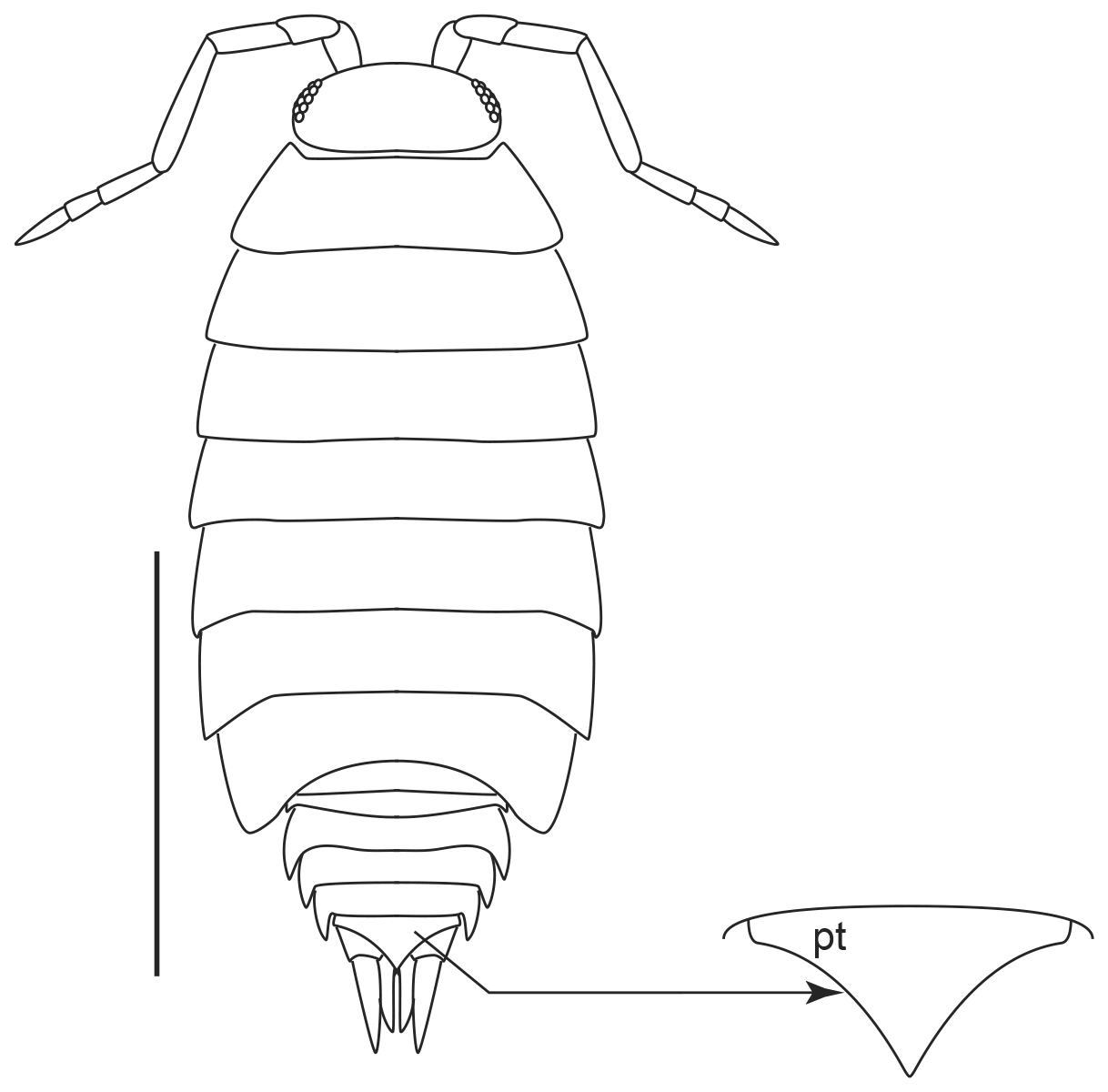 Philoscia muscorum, pt pleotelson. Scale bar: 5 mm.